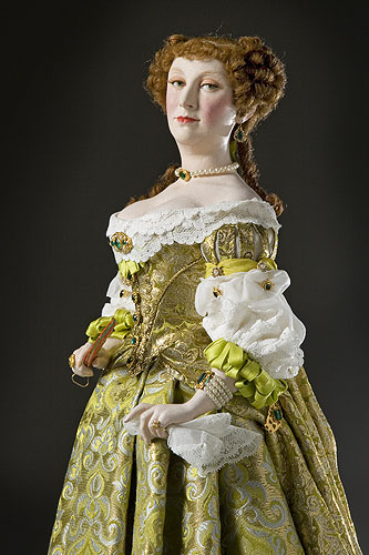 Historical Mixed Media Figure of Mme. Françoise Athénaïs Montespan produced by artist/historian George S. Stuart and photographed by Peter d'Aprix. This image, from the George S. Stuart Gallery of Historical Figures® archive ( is provided for all uses with appropriate attribution. Any derivatives must be shared in the same manner. Contributor mharrsch is webmaster for the gallery site.